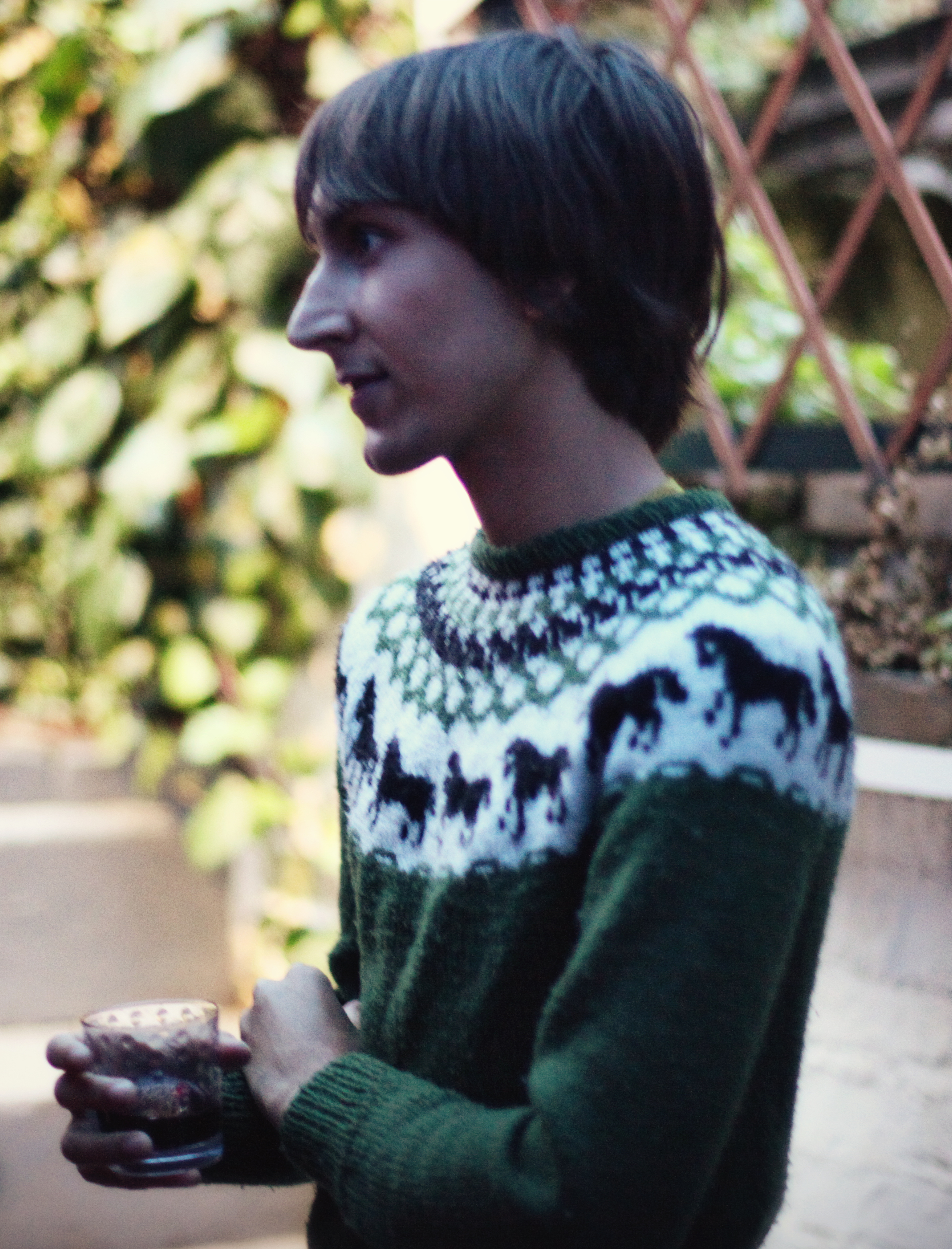 Alex Somers at the Riceboy Sleeps launch